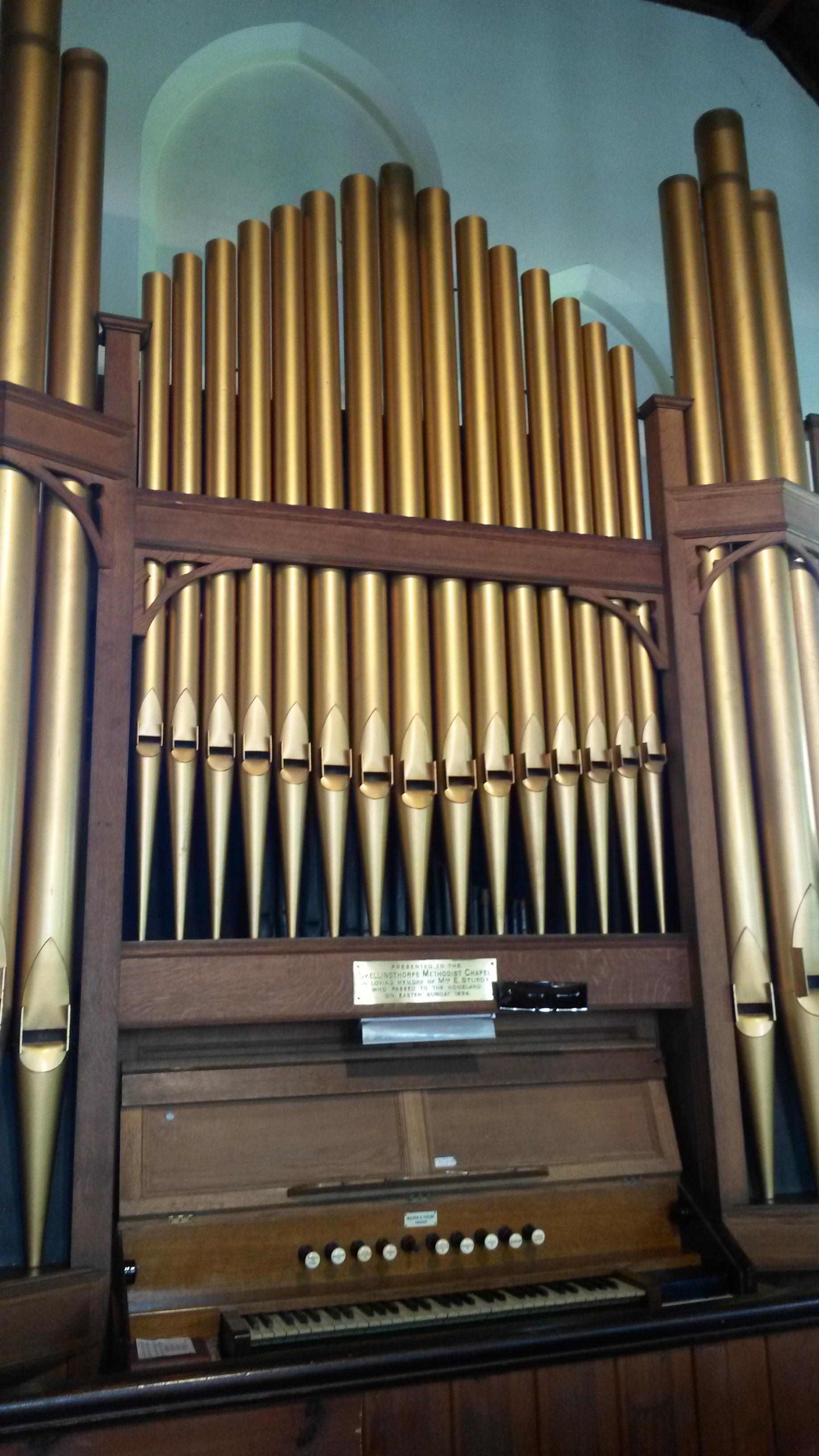 This piece of equipment was presented to Skellingthorpe's Methodist chapel in memory of Mr E Sturdy in 1934